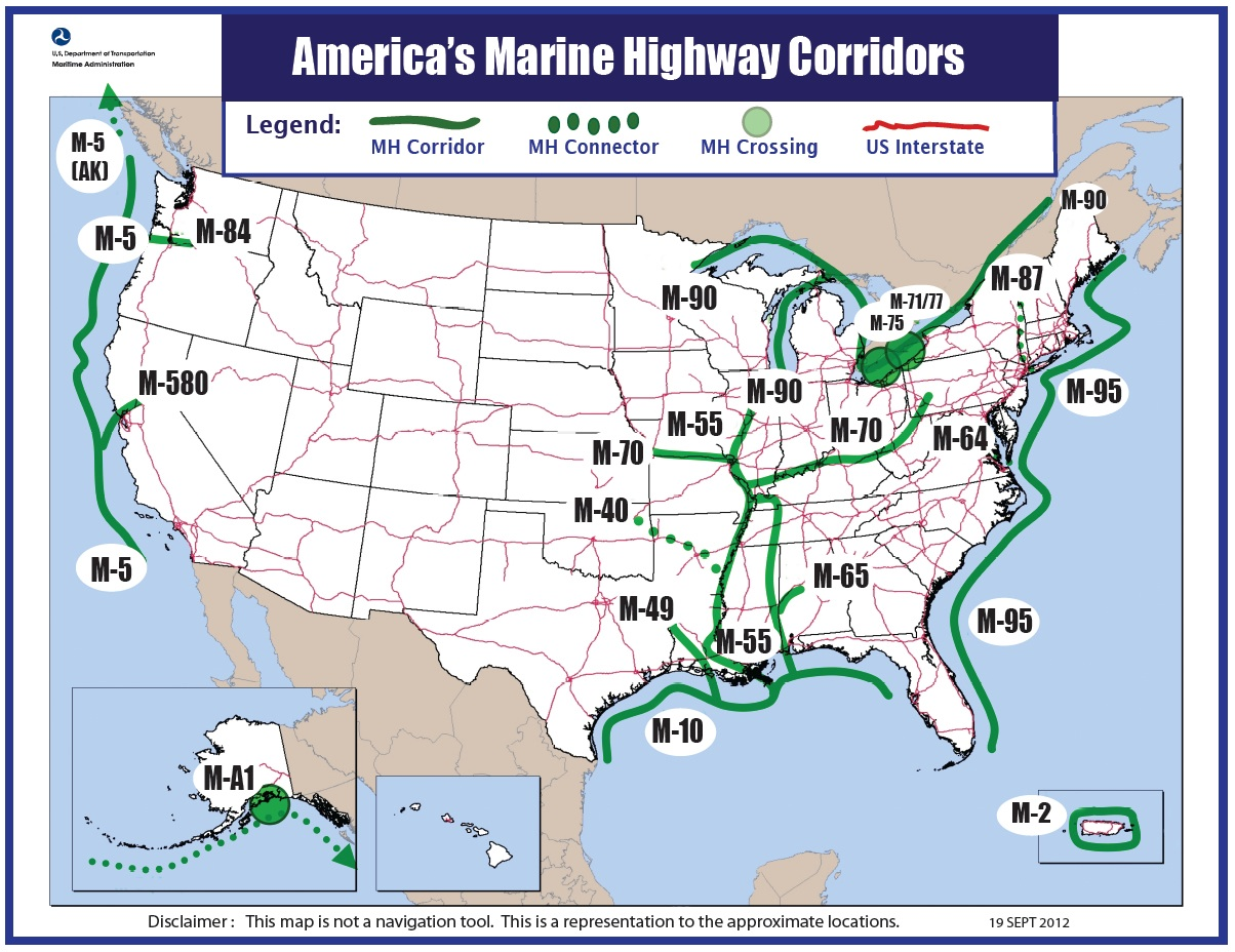 Prospective corridors for America's Marine Highway.